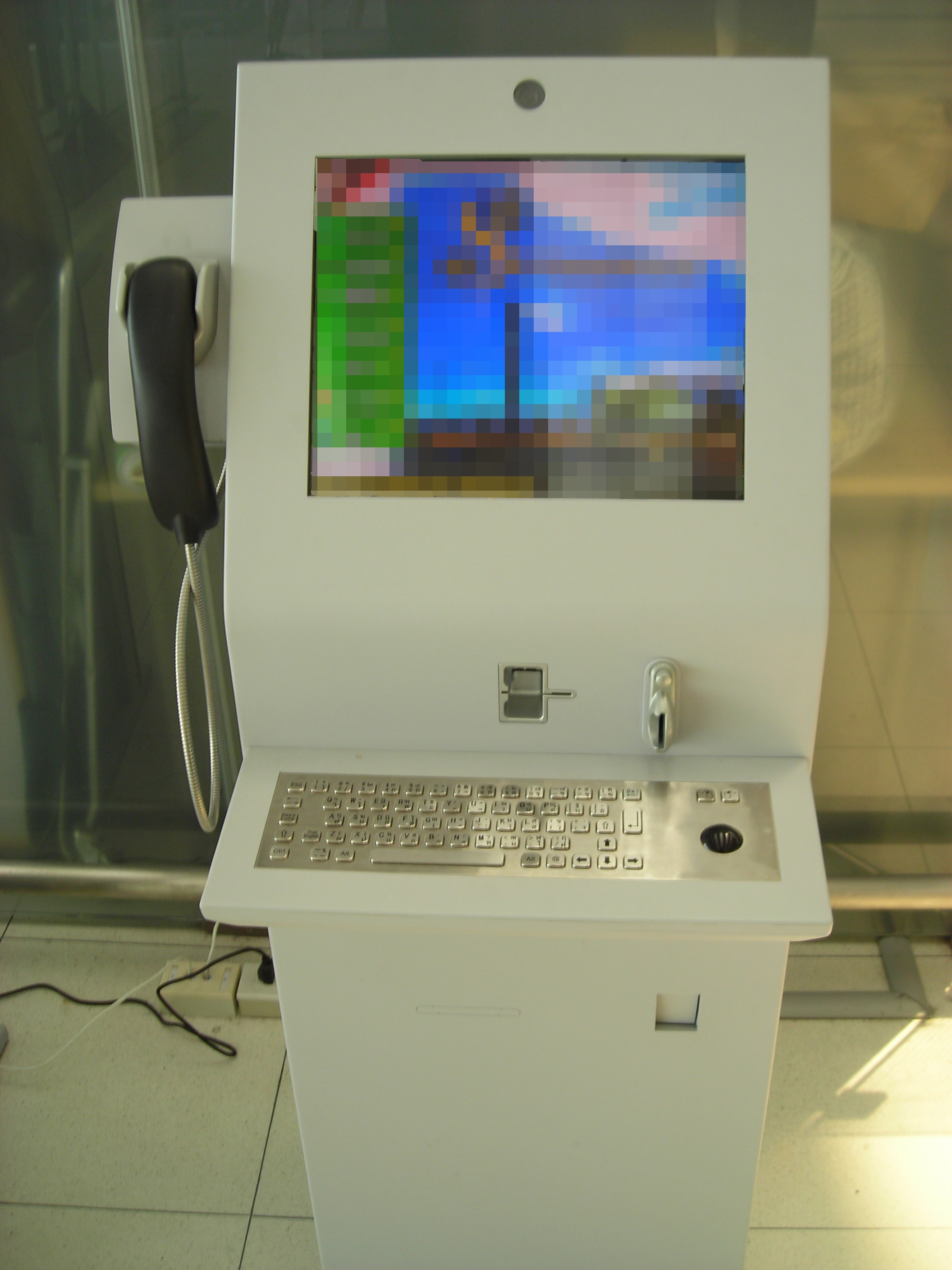 Internet kiosk at Suvarnabhumi International Airport, Thailand.